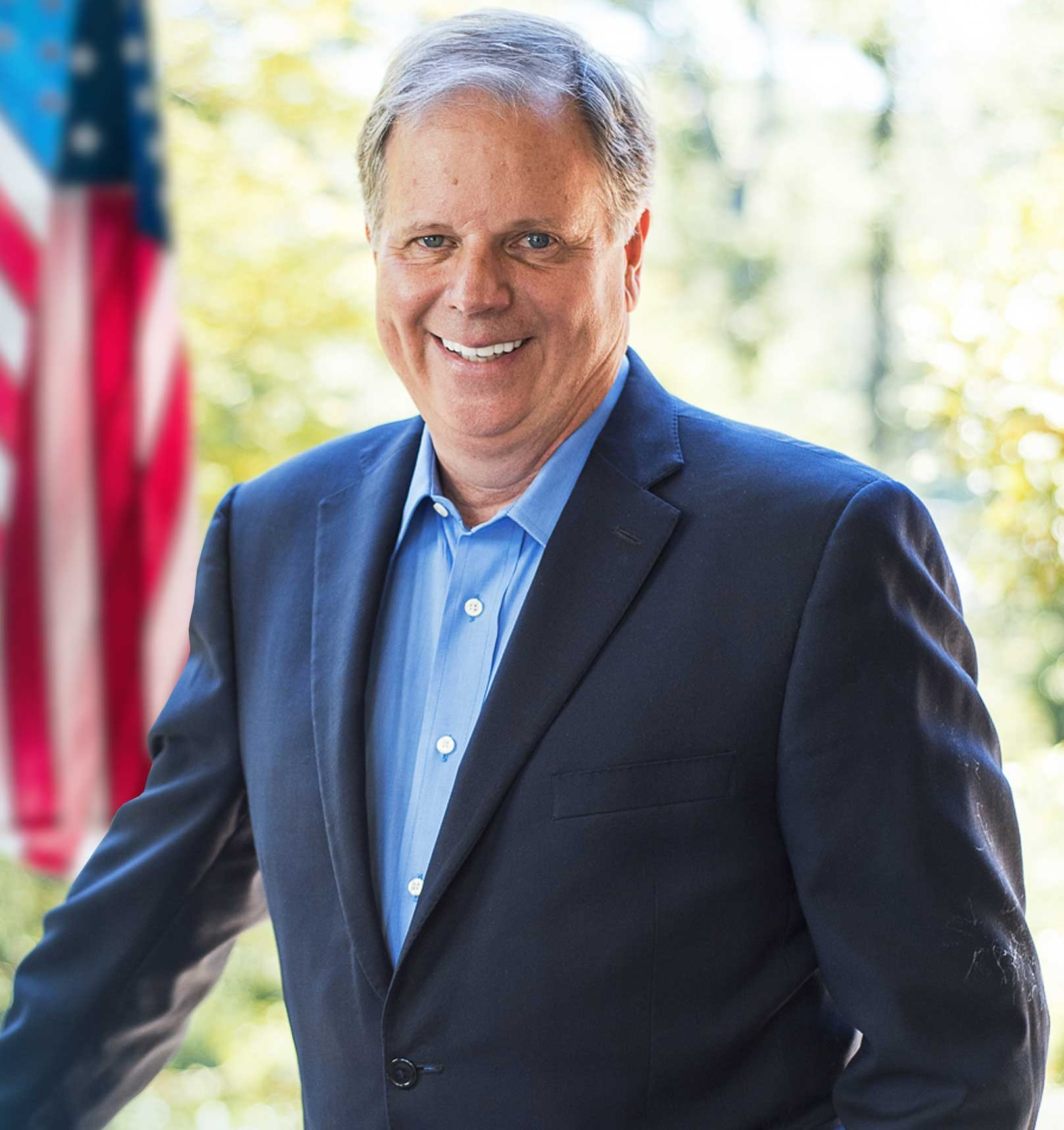 Doug Jones Profile